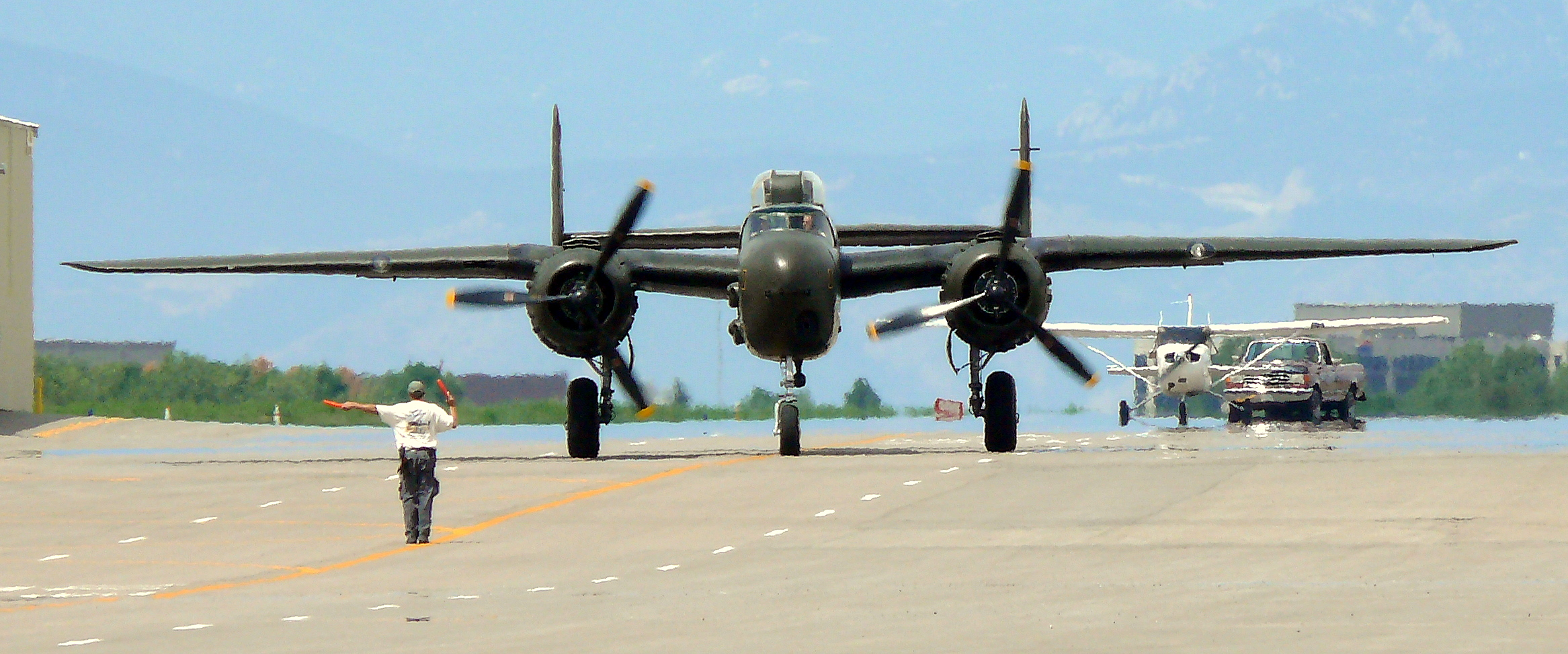 B-25H Mitchell Barbie III , USAF 43-4106, FAA N5548N Pilot: Raymond Hillson Co-pilot: Dick Jones Sr. Crew Chief: Frank Kurland Flightline Crew Chief and Marshaller: Lance Barber Barbie III heading to Dick Jones Hangar, Centennial Airport, Centennial CO.